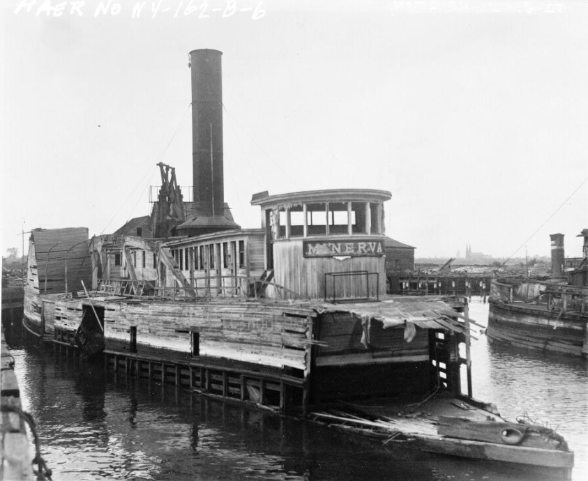 MINERVA EX JANE MOSELEY (VESSEL 53) IN BOAT BASIN AT SHOOTERS ISLAND. Circa 1936, photographer unknown. (Original in Eldridge Collection of the Mariners Museum, Newport News, Virginia) - Shooters Island, Ships Graveyard, Vessel No. 53, Newark Bay, Staten Island (subdivision), Richmond County, NY PHOTOS FROM SURVEY HAER NY-162-B